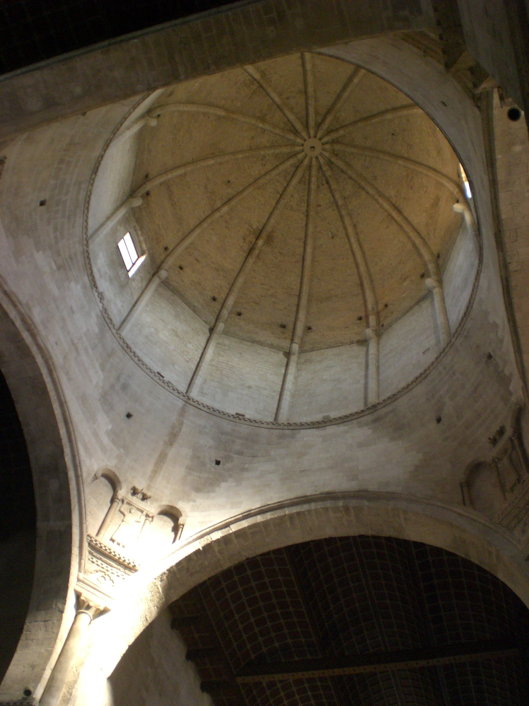 Ancona, Saint Cyriacus Cathedral, X-XII century